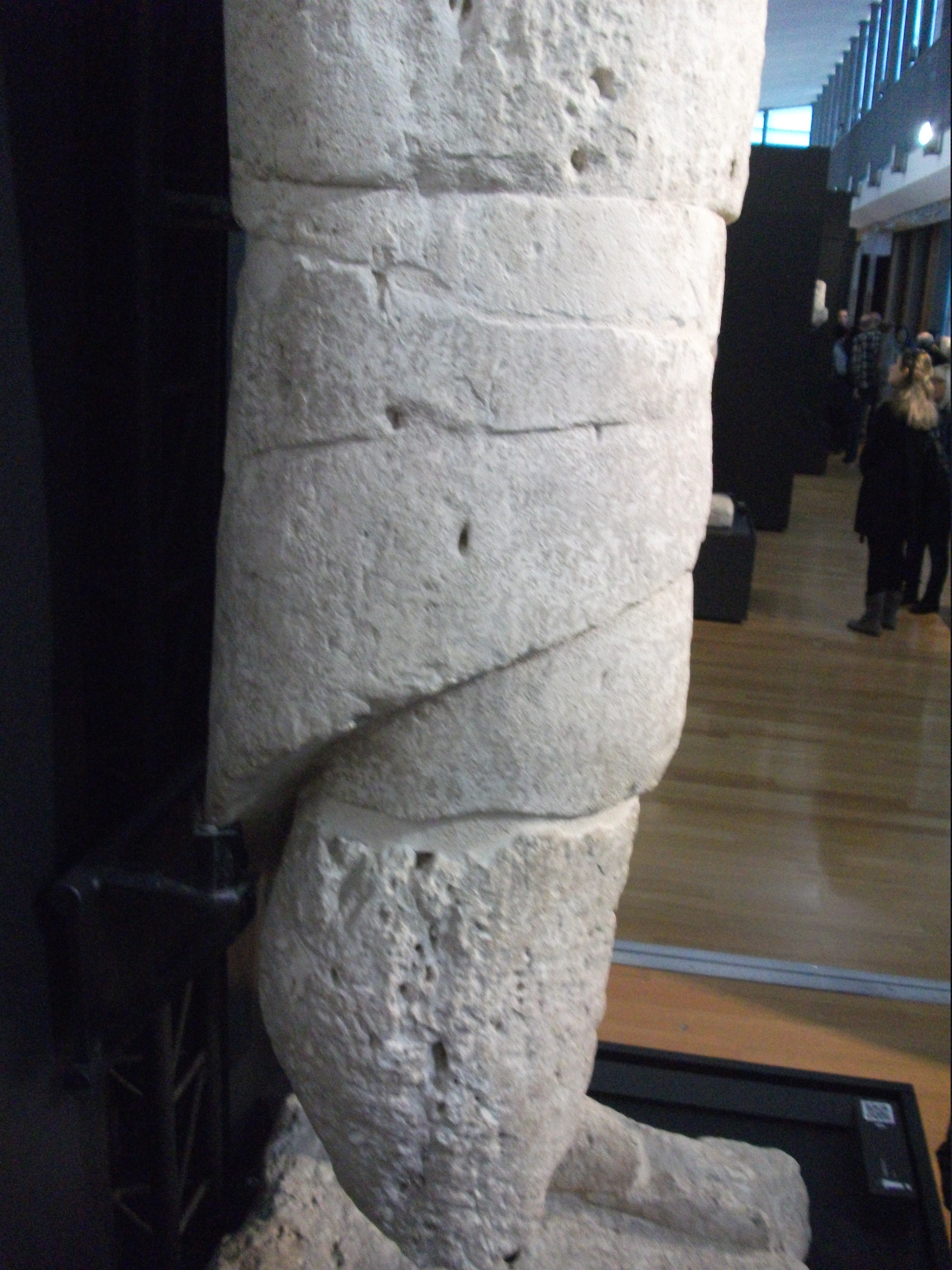 Sculpture, Giant of Monte Prama, boxer, Sardinia, Italy, Nuragic civilization,archaeology, bronze age, sea peoples,prehistory